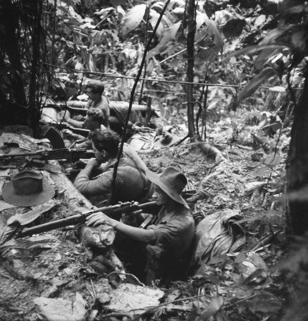 2/5th Battalion, Australian Army, Second World War. Members of the battalion man gun pits in New Guinea on 7 August 1943